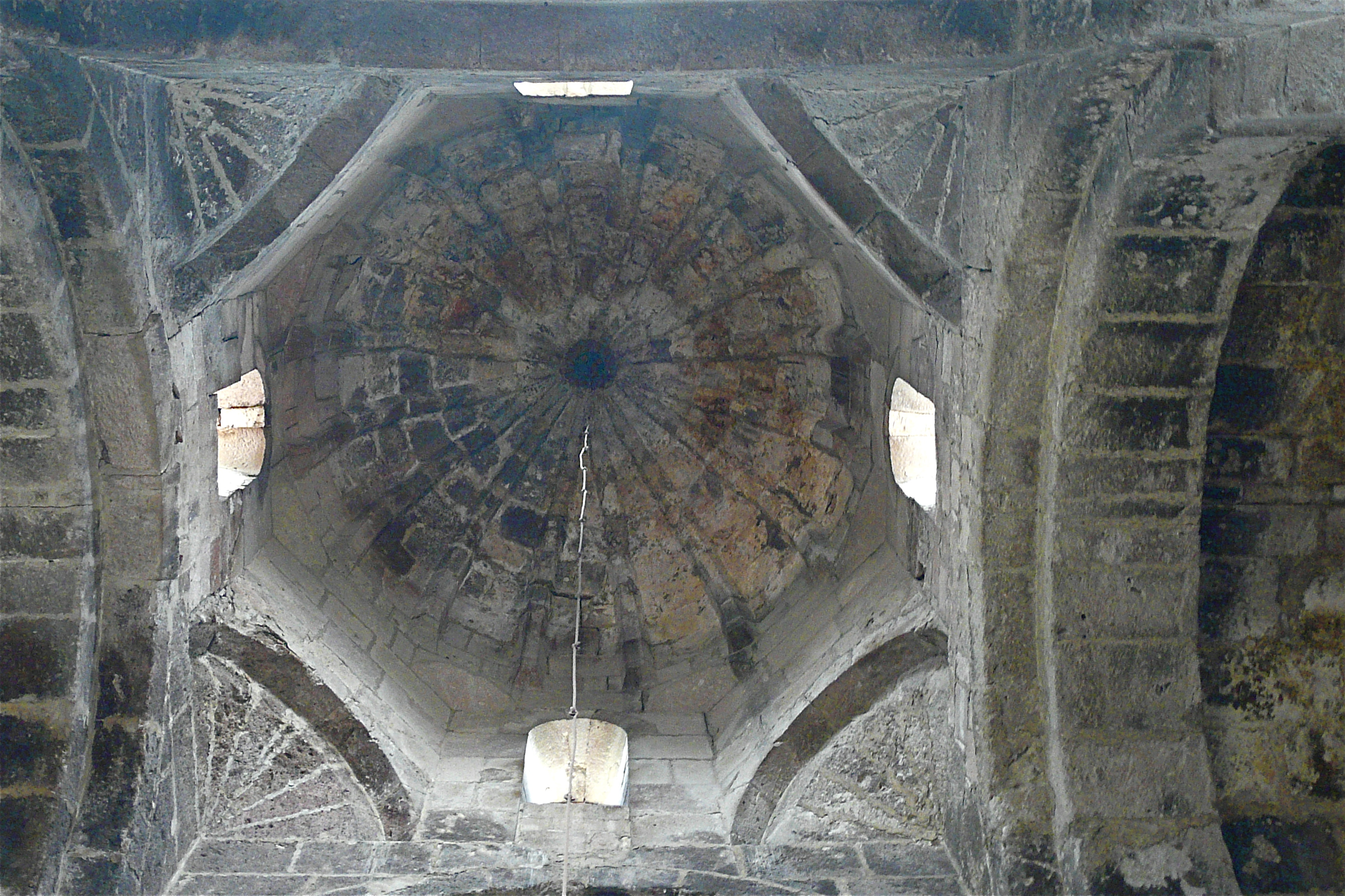 Cupola of Odzun basilica, Armenia.